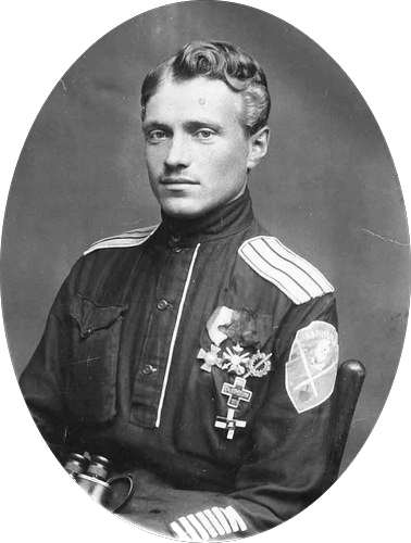 Levitov Mikhail Nikolaevich